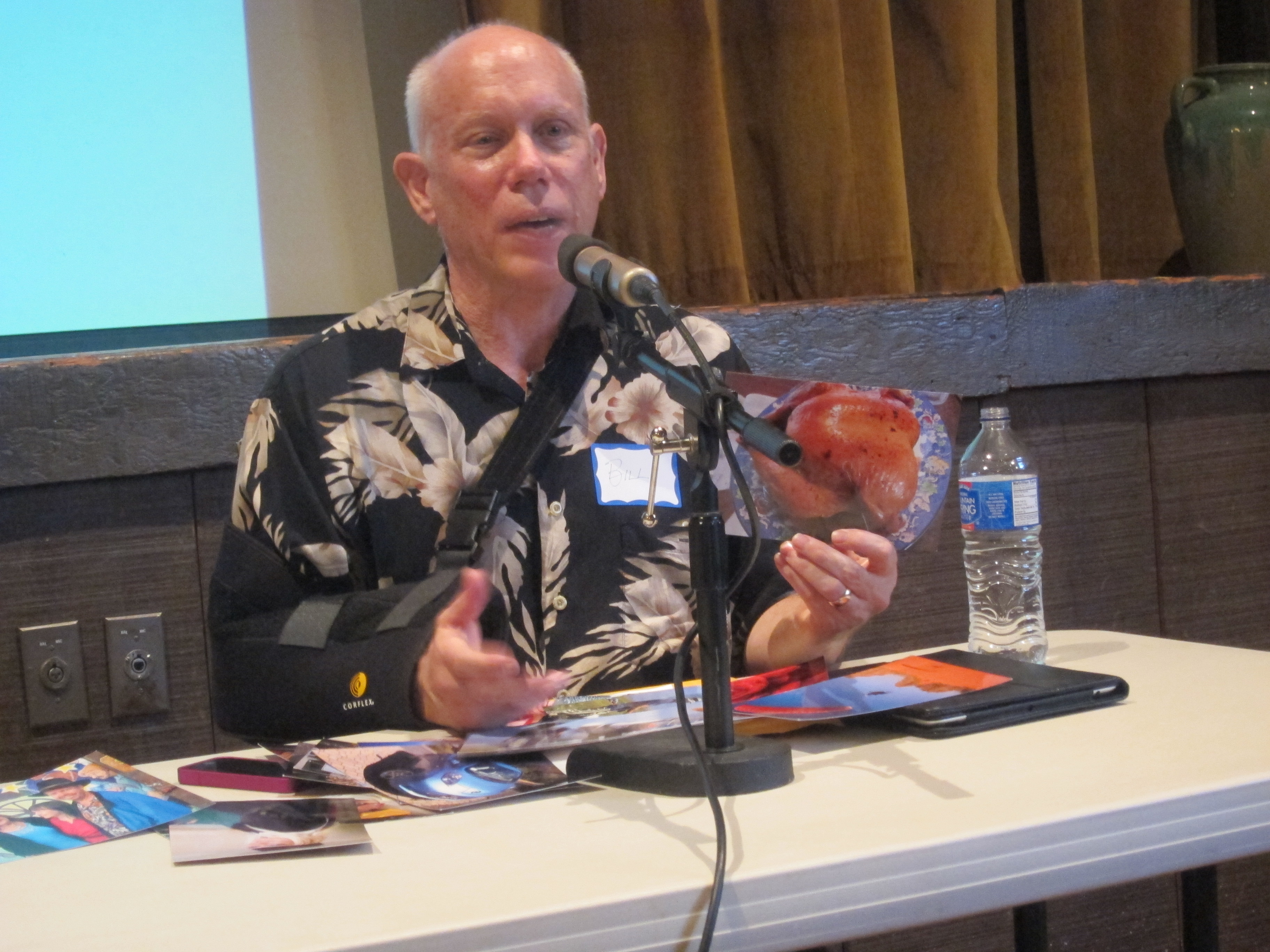 Bill Atkinson, original author of the HyperCard software, speaking at the Berkeley Cybersalon on August 12th, 2012, for an event marking 25 years since HyperCard's release.